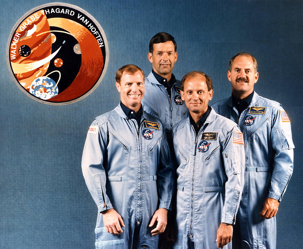 The crewmembers for STS-61G would have been, Commander; David M. Walker, Pilot; Ronald J. Grabe, and Mission Specialists; Norman E. Thagard and James D. van Hoften.